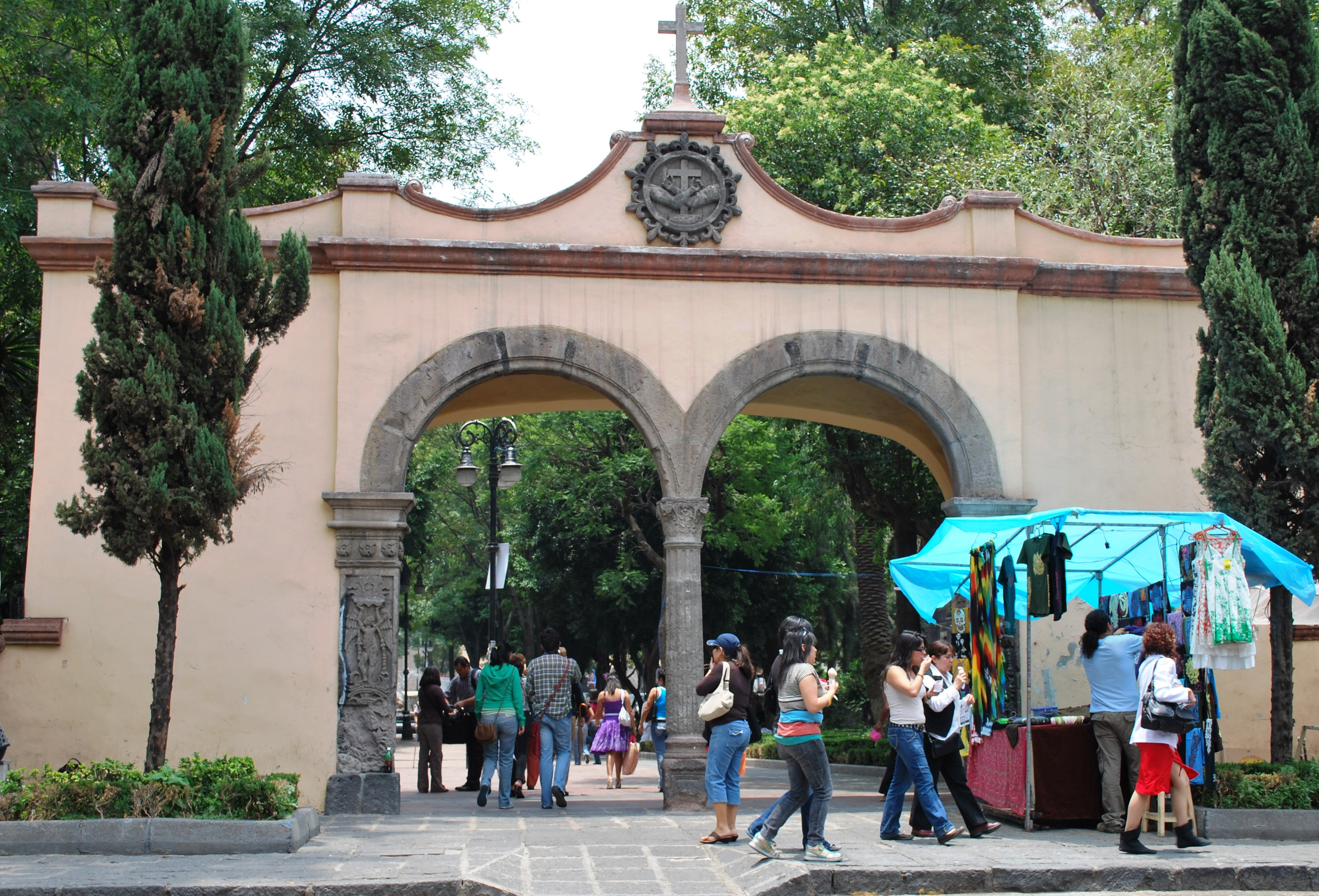 Gated entrance to the Jardin del Centenario located in Coyoacan borough in Mexico City